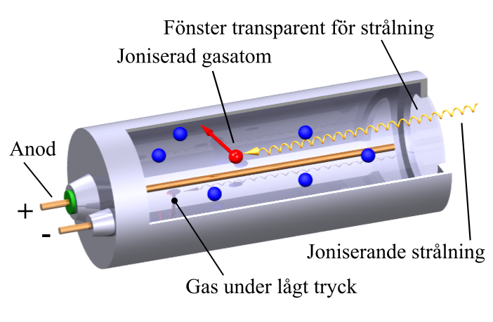 Geiger-Muller counter tube